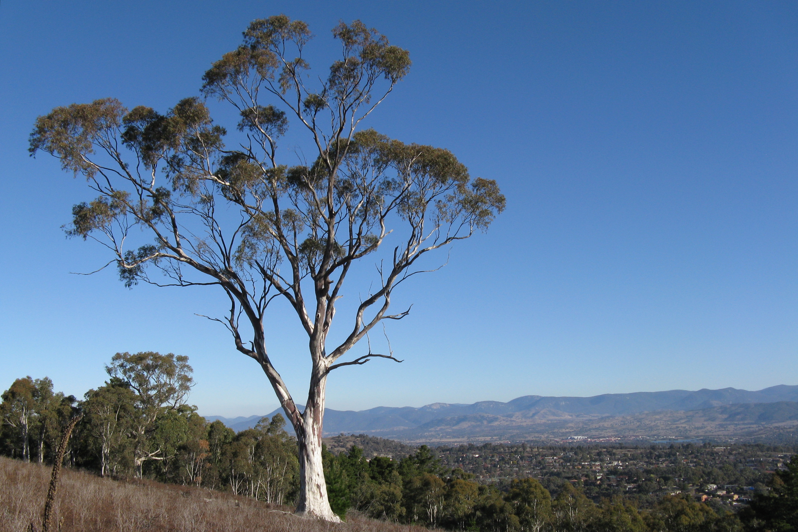 View of Isaacs and the Brindabella Mountains from Isaacs Ridge